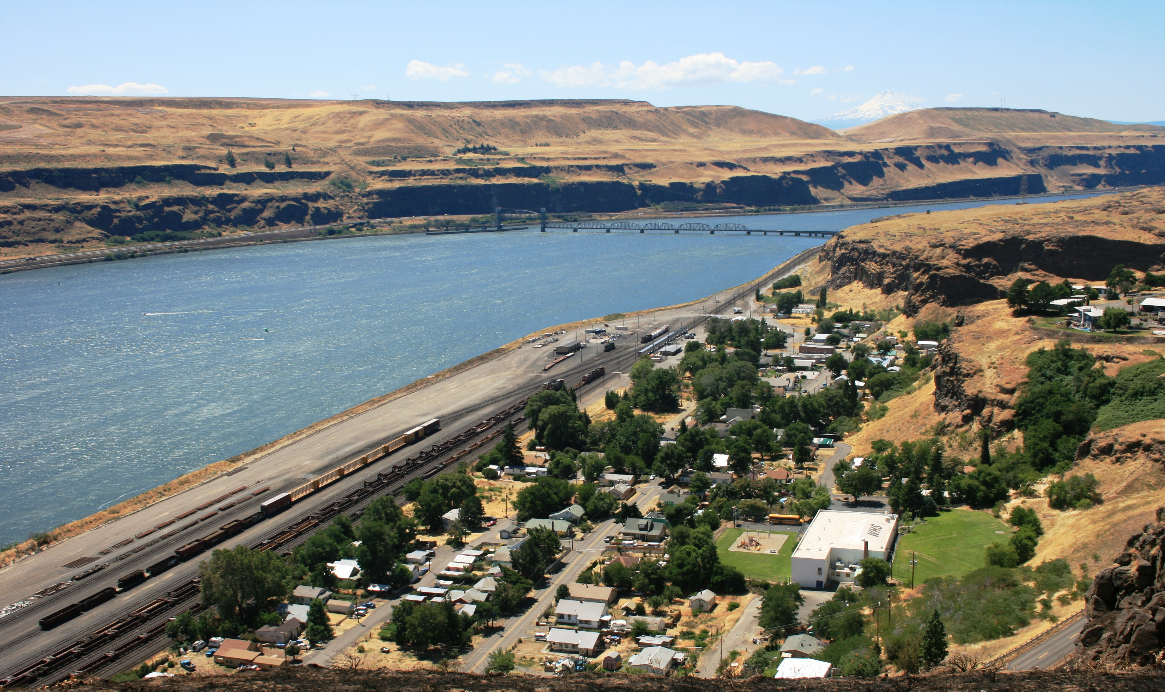 The town of Wishram, Washington as seen looking to the West South-West from above. Oregon Trunk Rail Bridge across the Columbia River is visible in the distance.